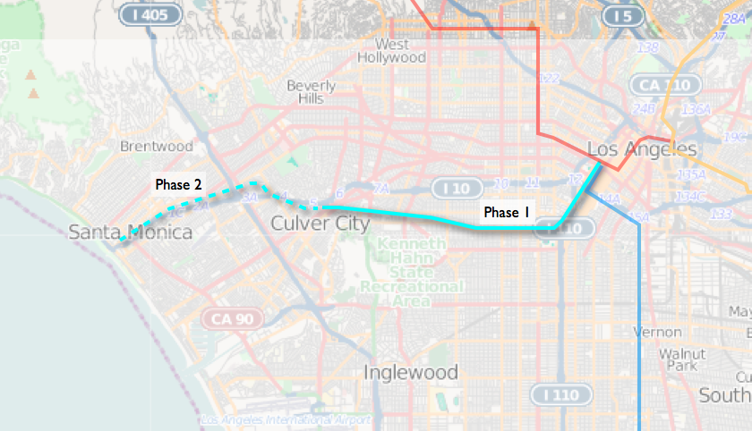 The route of the LACMTA Metro Rail 'Expo line — in western Los Angeles County.